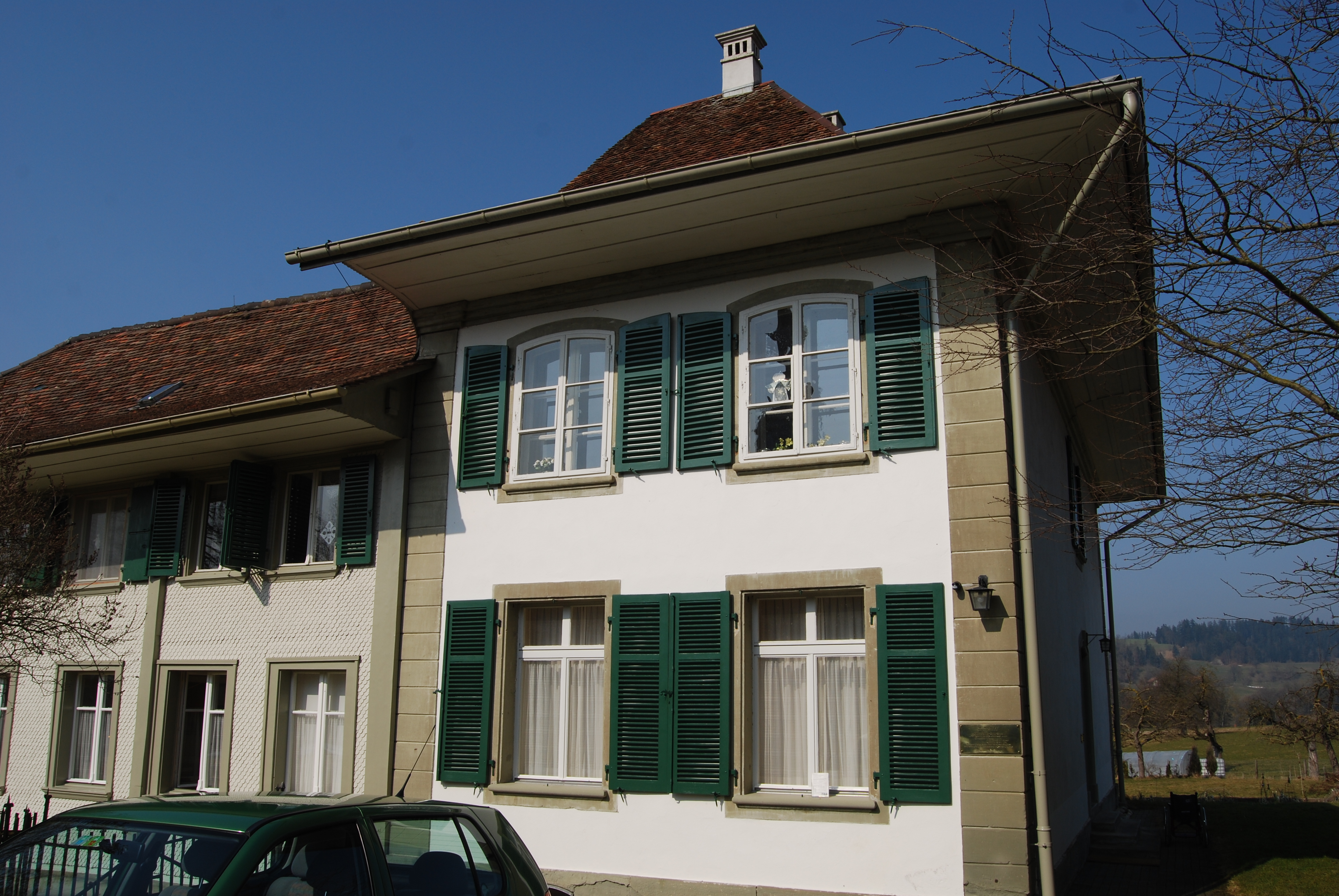 Swiss Zither Culture Centre at Trachselwald, canton of Bern, Switzerland